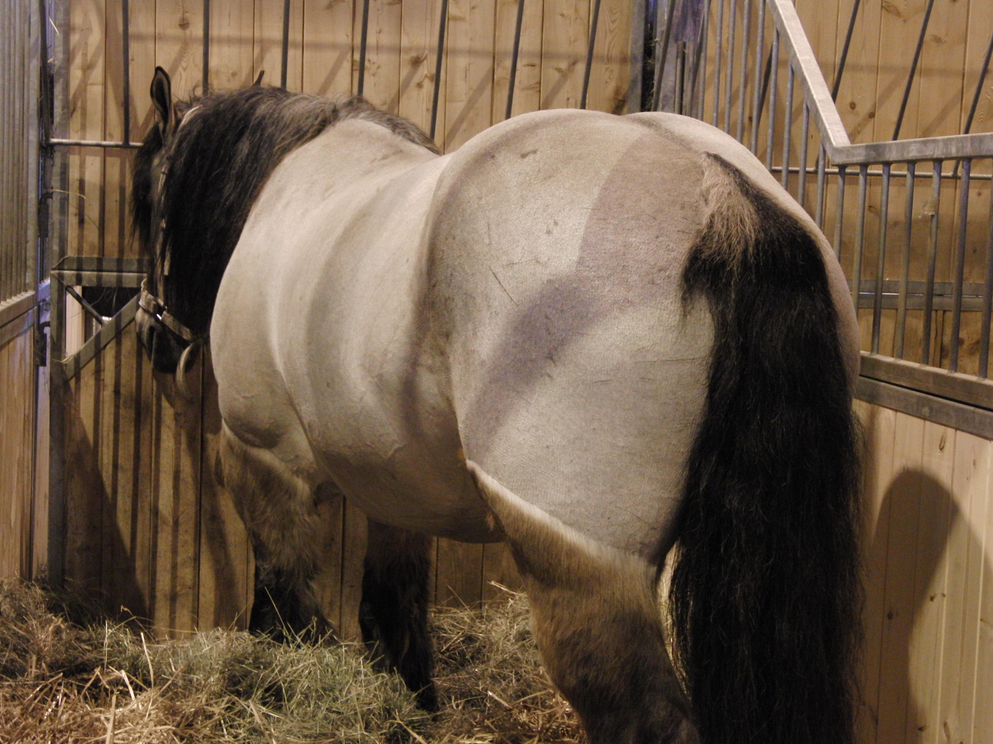 Poitevin horse - Salon international de l'agriculture 2011